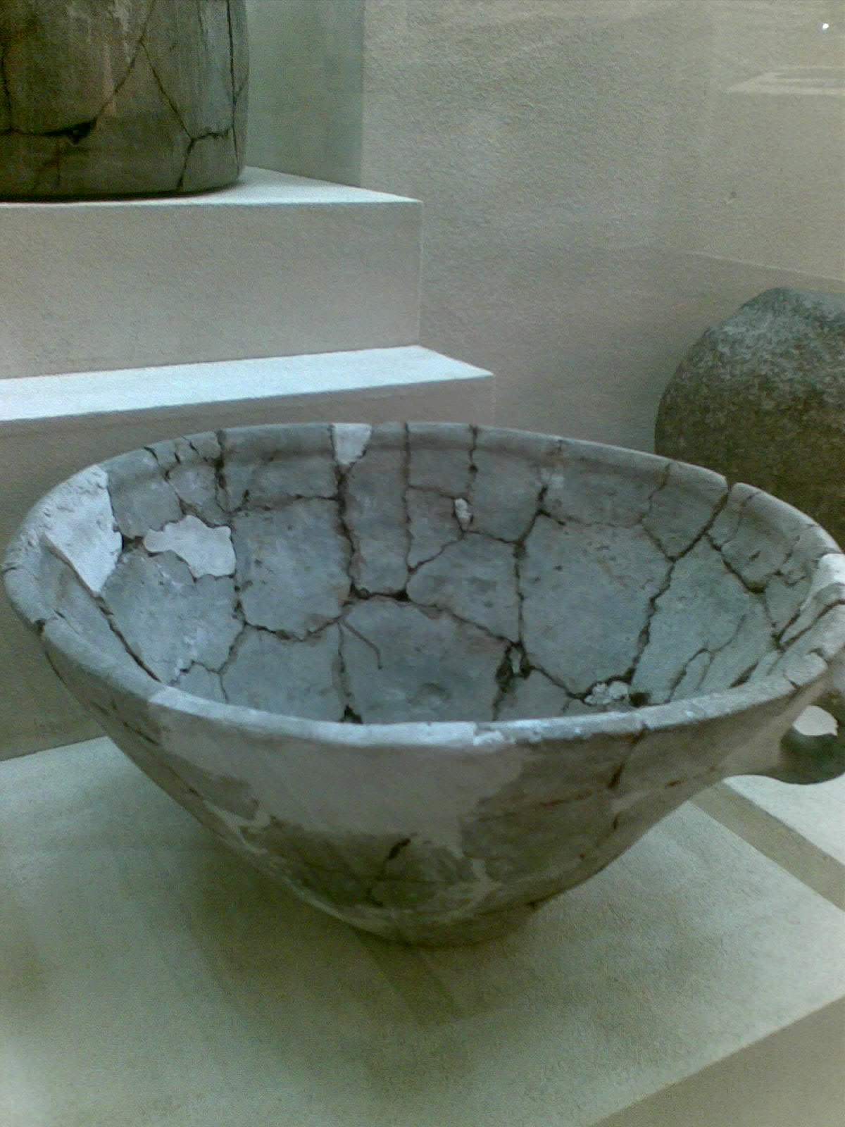 Pottery from a dwelling place, found at Babadervish - archeological monuments from Azerbaijan. Azerbaijan National History Museum